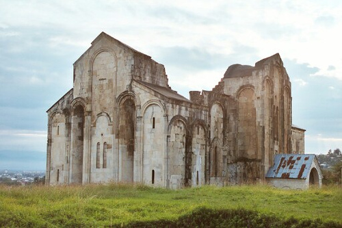 Bagrati Cathedral in Georgia